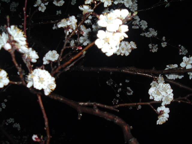 Description RU: Цветение абрикоса в апреле, Луганск, Украина Description EN: Apricot blossoms at april, Luhansk, Ukraine Date: 17/04/2005 Author: Alex Chupryna License: GFDL